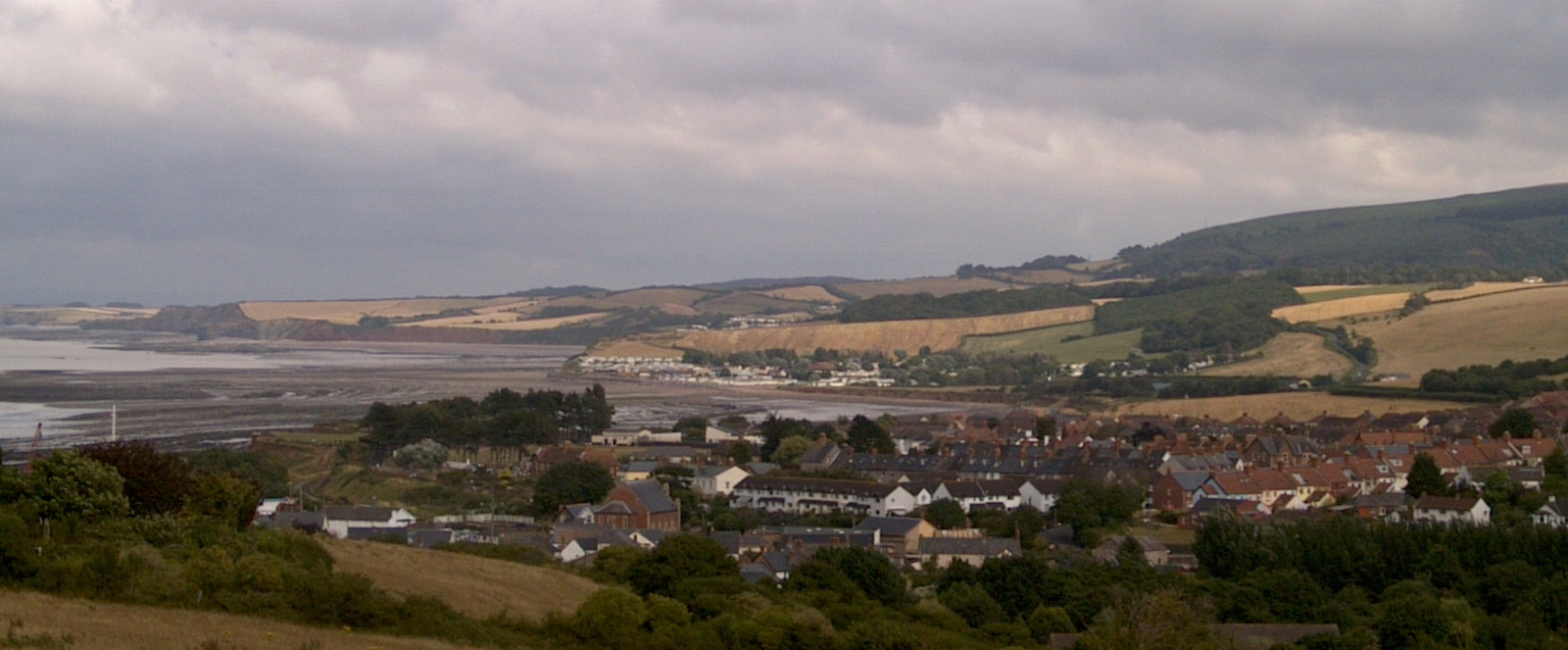 Taken by myself 29/07/2006 from atop the hill overlooking Watchet.